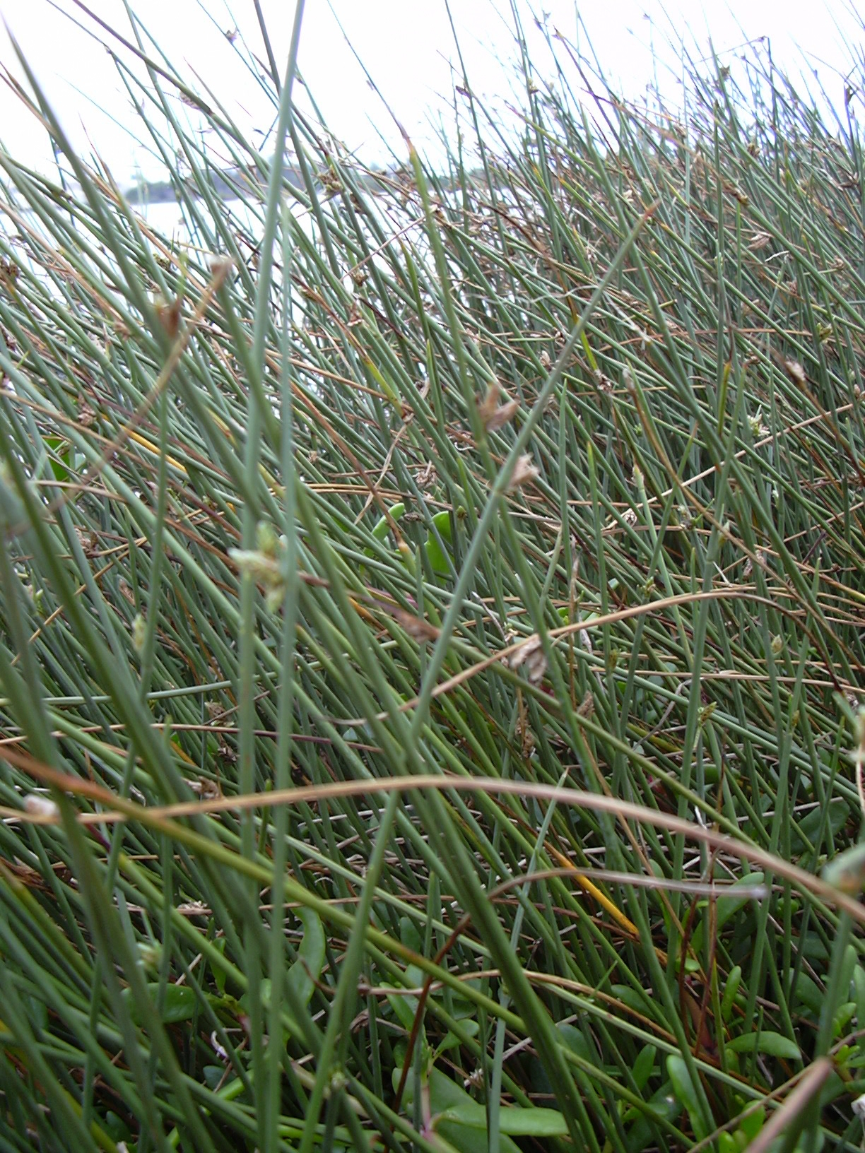 Cyperus laevigatus (habit). Location: Maui, Kanaha Pond